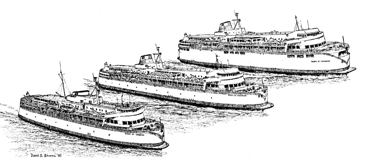 Queen of Vancouver - as built (l), stretched (c), lifted (r) [D.O. Thorne original artwork drawn 1981]